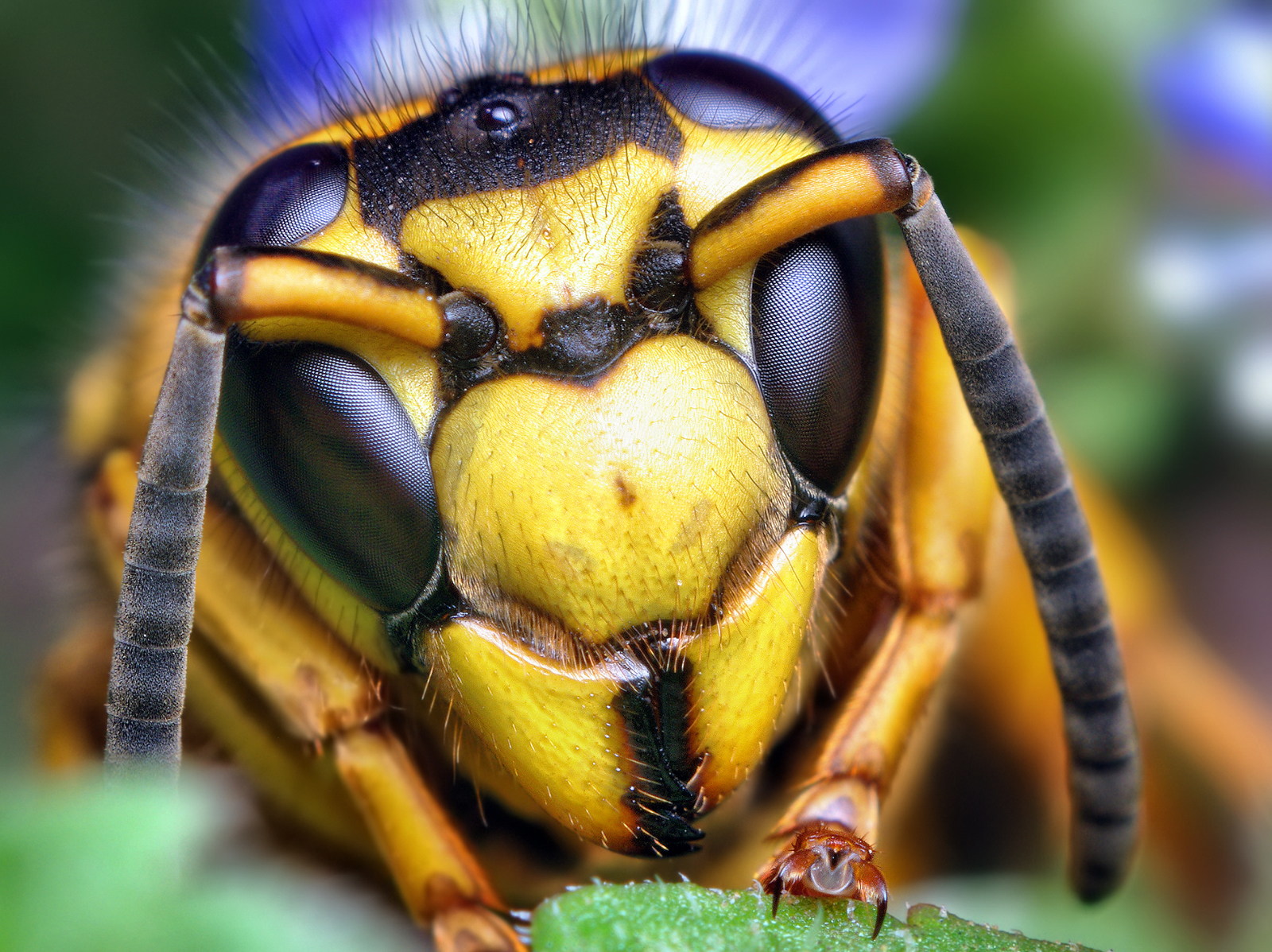 This past Friday, I went to a public lecture by evolutionary biologist Richard Dawkins and was surprised to see that he used this image in his presentation. I remembered seeing the image on flickr a few times, and thought to myself that it would be great if had used some of my images I have posted, but obviously my images are not as well known. Some salticid images probably would have been a well received addition... This morning I set out to look for jumping spiders as I often do, and decided to flip over a wooden platform were I know a Phidippus audax lives ( Click here to watch a video of this spider eating a harvestman ) and was surprised to find this female yellowjacket hanging out in the shade beneath the platform. She may have just come out of hibernation, so she didn't seem to keen on flying away, but kind of waddled around a bit slowly, giving me a chance to get a few photos. The above image is a crop from an image taken with the 50mm reversed to a few extension tubes. Make sure to view it in the largest size to appreciate all the fine detail! Quite a beautiful wasp, hopefully I can find a male someday.